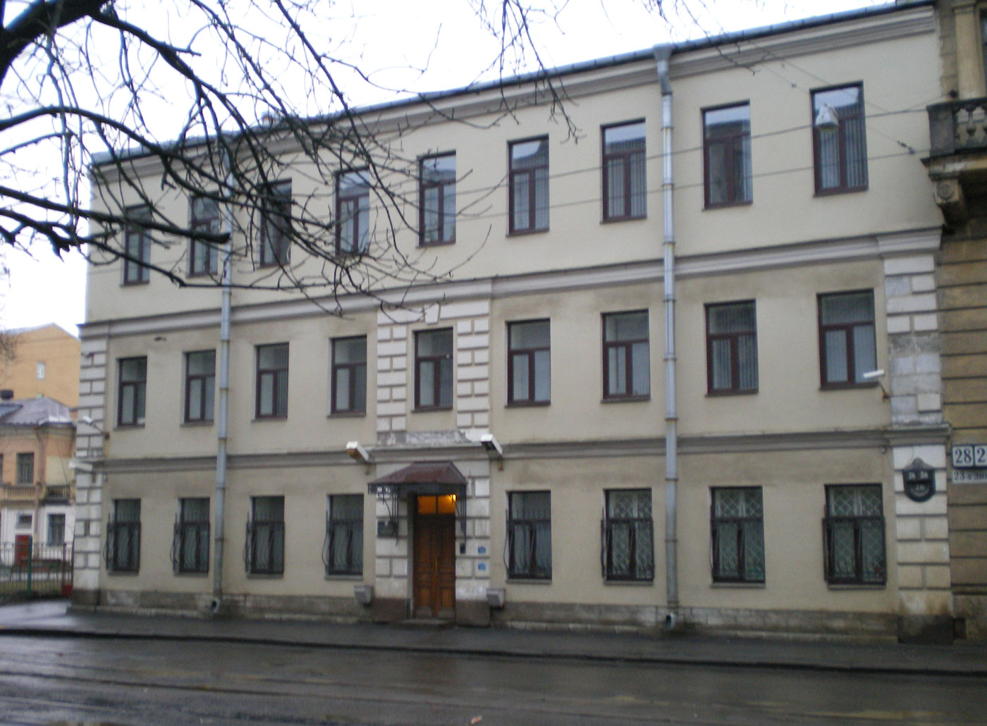 Faculty of Law of Saint Petersburg State University's building